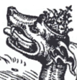 The Dragon of Revelation Wearing the Papal Tiara by Lucas Cranach the Elder in the 1522 publication of Luther's translation of the New Testament.